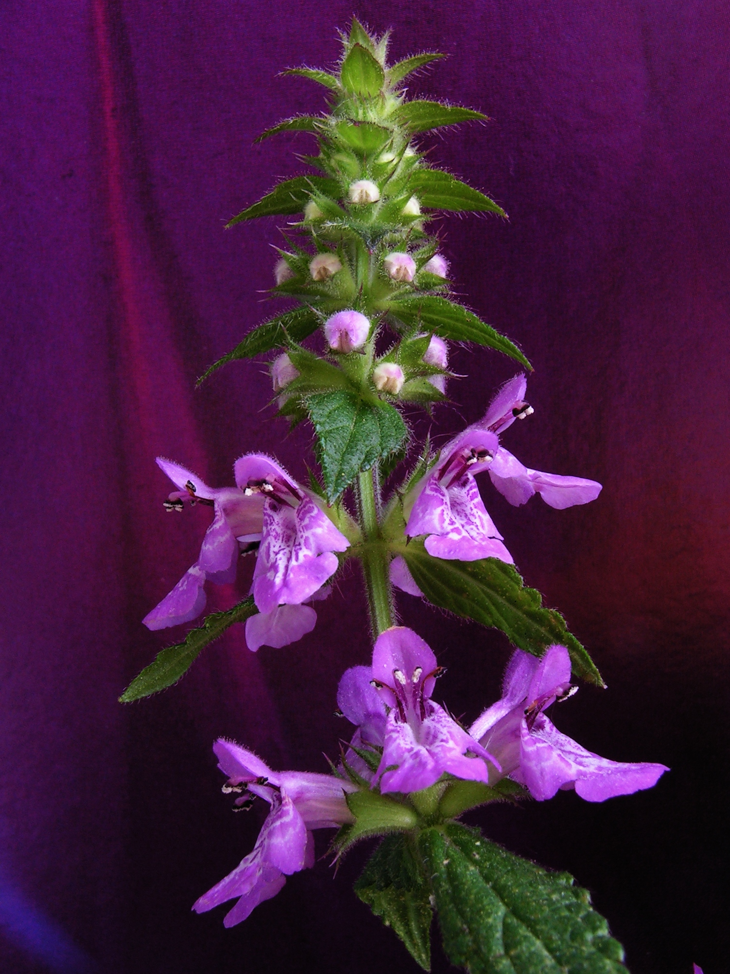 Inflorescence of Marsh Woundwort (Marsh Hedgenettle). Moscow region, Russia.